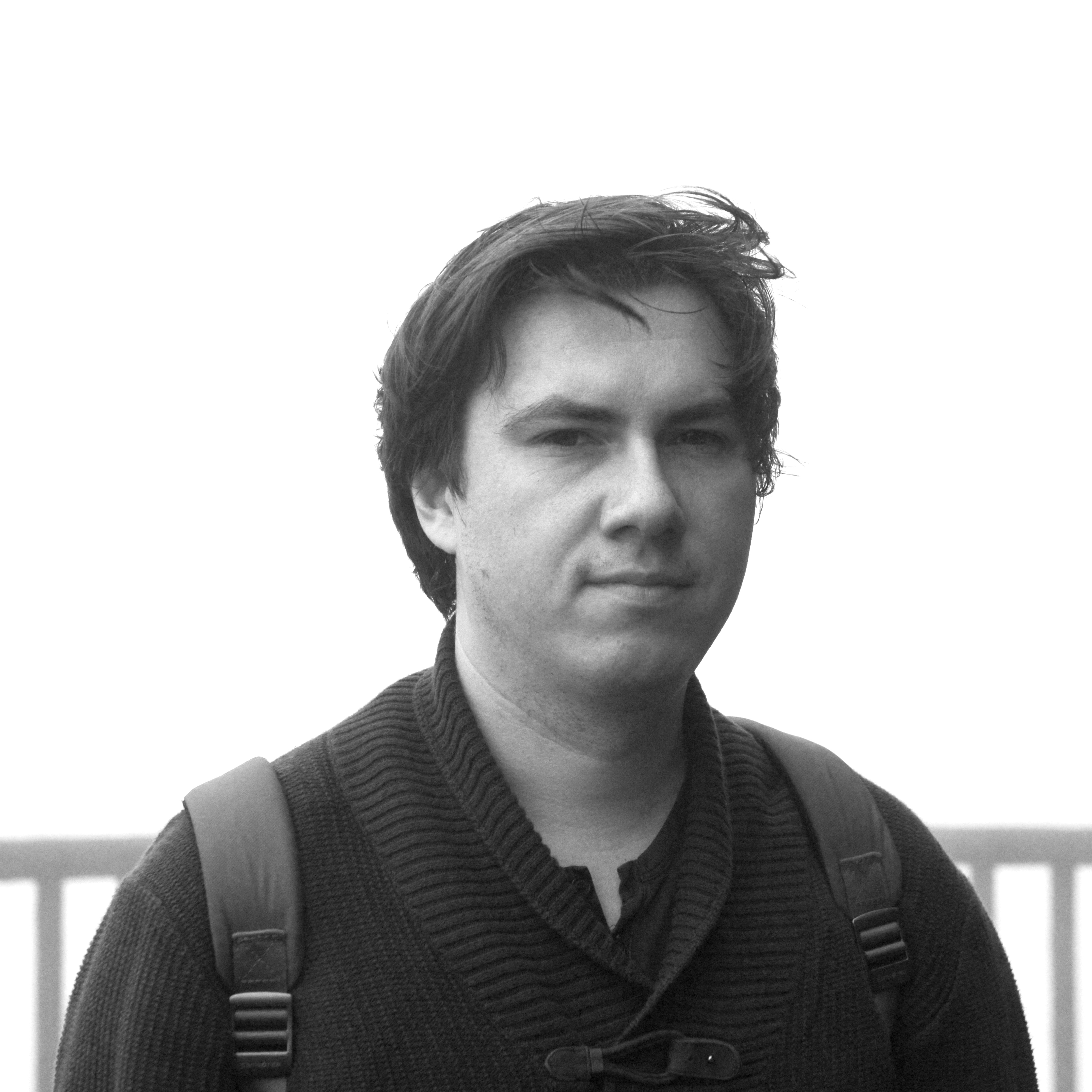 photo of Pavel Otdelnov, 2014